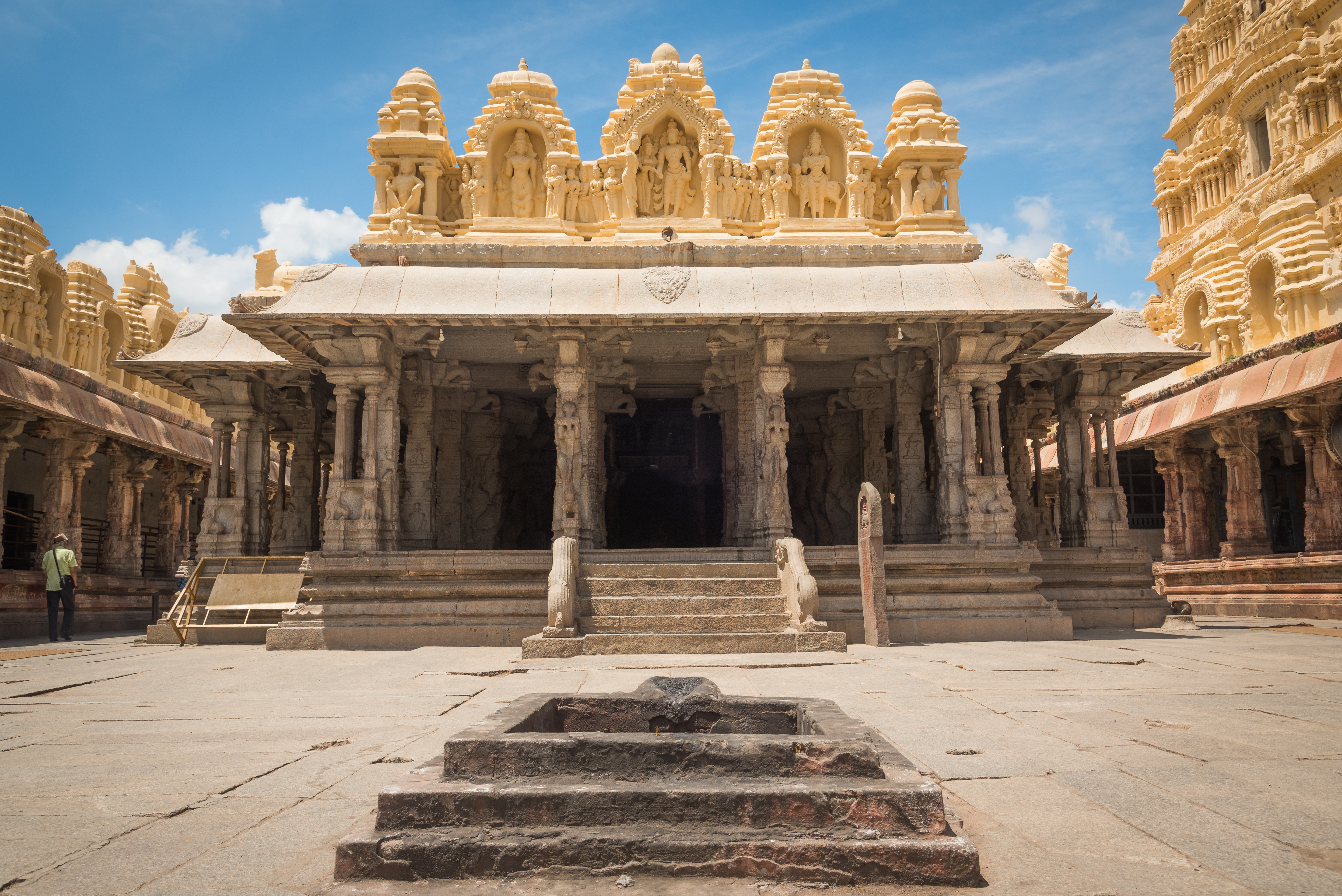 Front view of the temple housing the shrine of Virupasksha, the main deity of the town of Hampi. Clicked using a Nikon D750 with 24-120 mm VR lens and Kenko CPL filter.